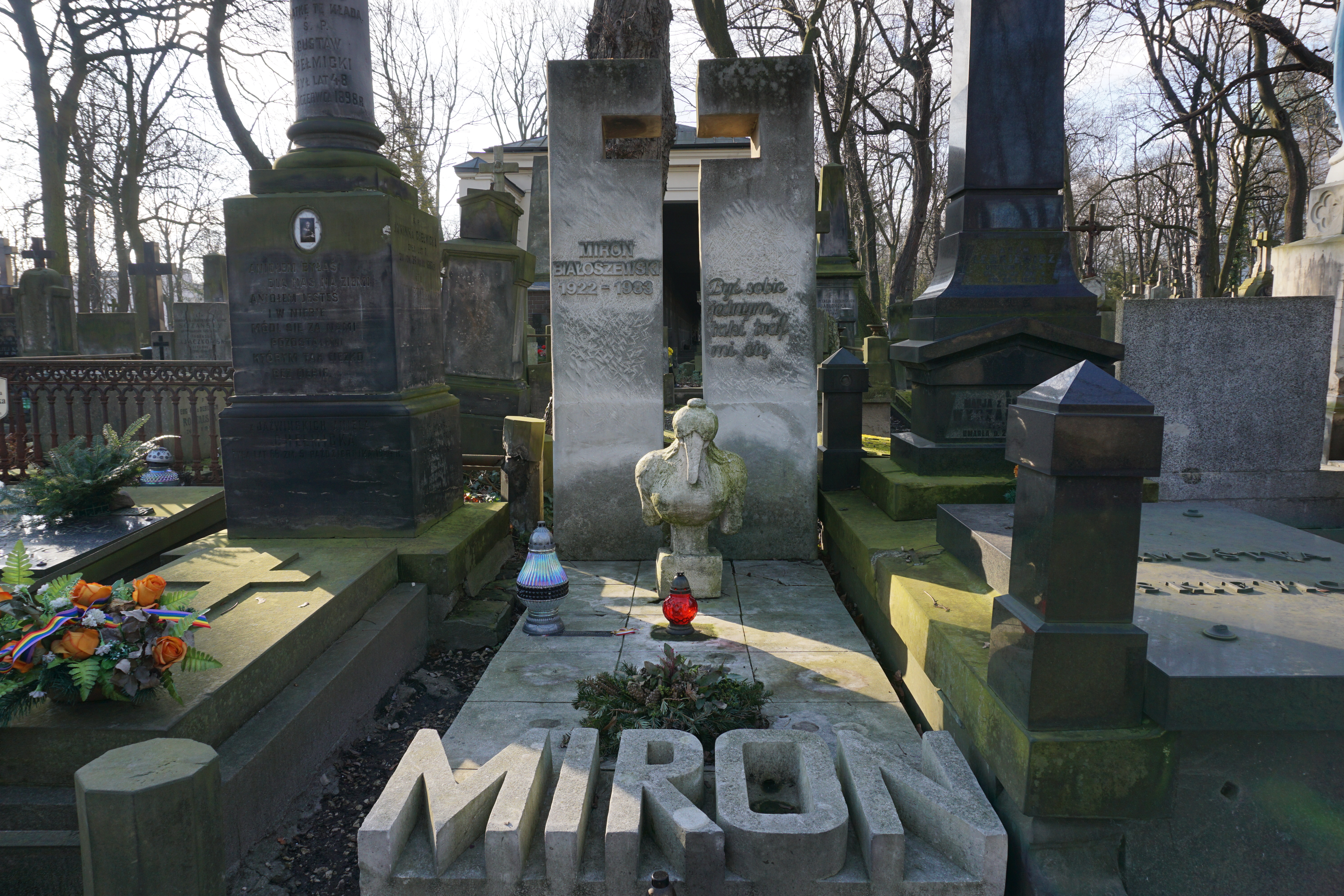 The grave of Miron Białoszewski at the Powązki Cemetery (section 263, row 1, grave 5)